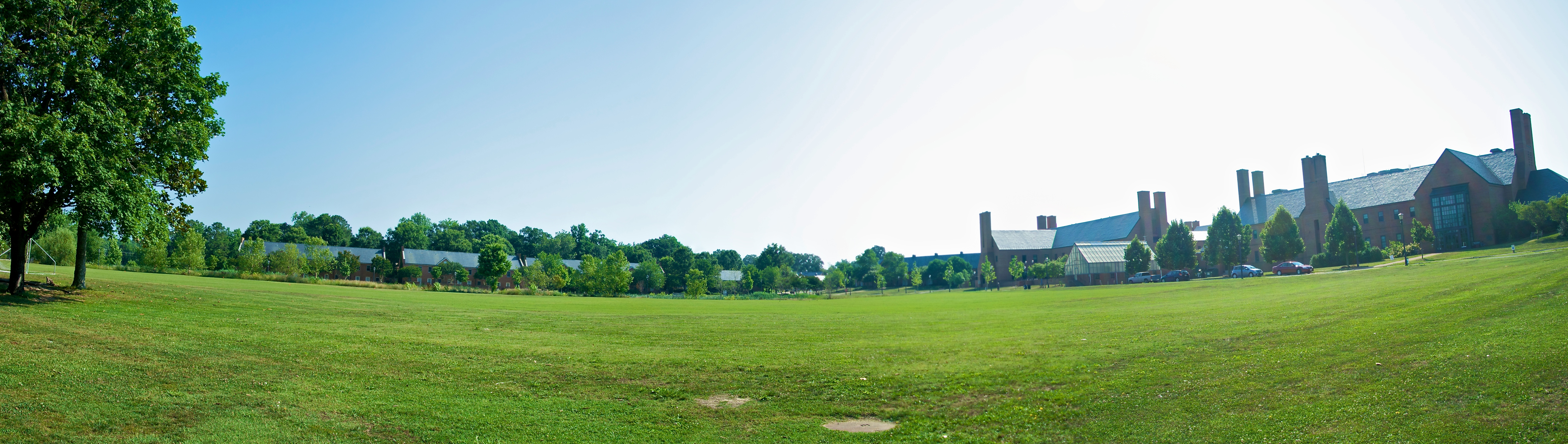 From just north of the St. John's site, looking across some green area toward the Old Townhouses (on the left), and sweeping across at Goodpaster and Schaefer Halls. Photo by Rob Friesel.